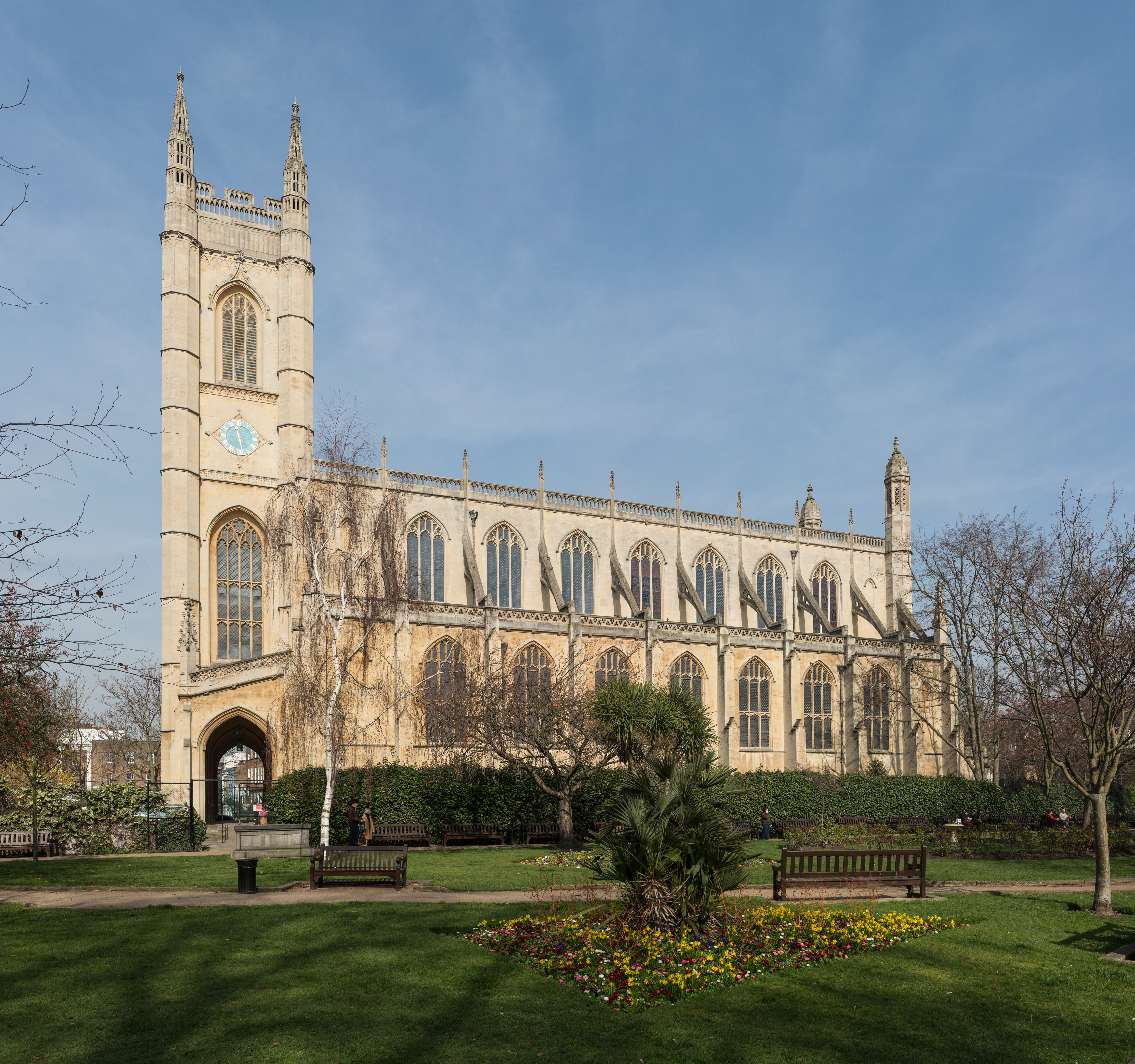 St Luke's Church as viewed from St Luke's Gardens, south of the Church.